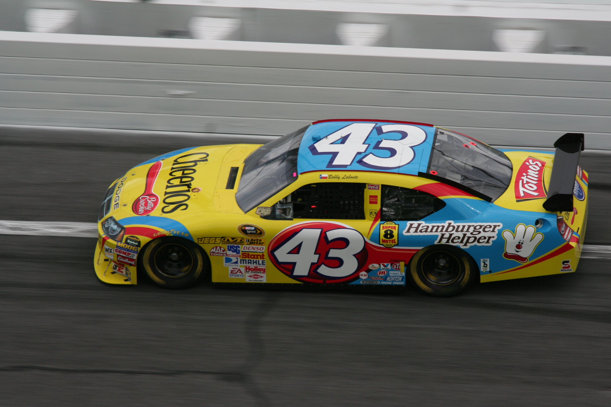 Shot by "The Daredevil" at Daytona during Speedweeks 2008Bobby Labonte Cheerios Dodge Charger